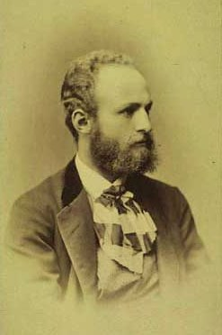 Viggo Johansen (1851-1935), Danish painter